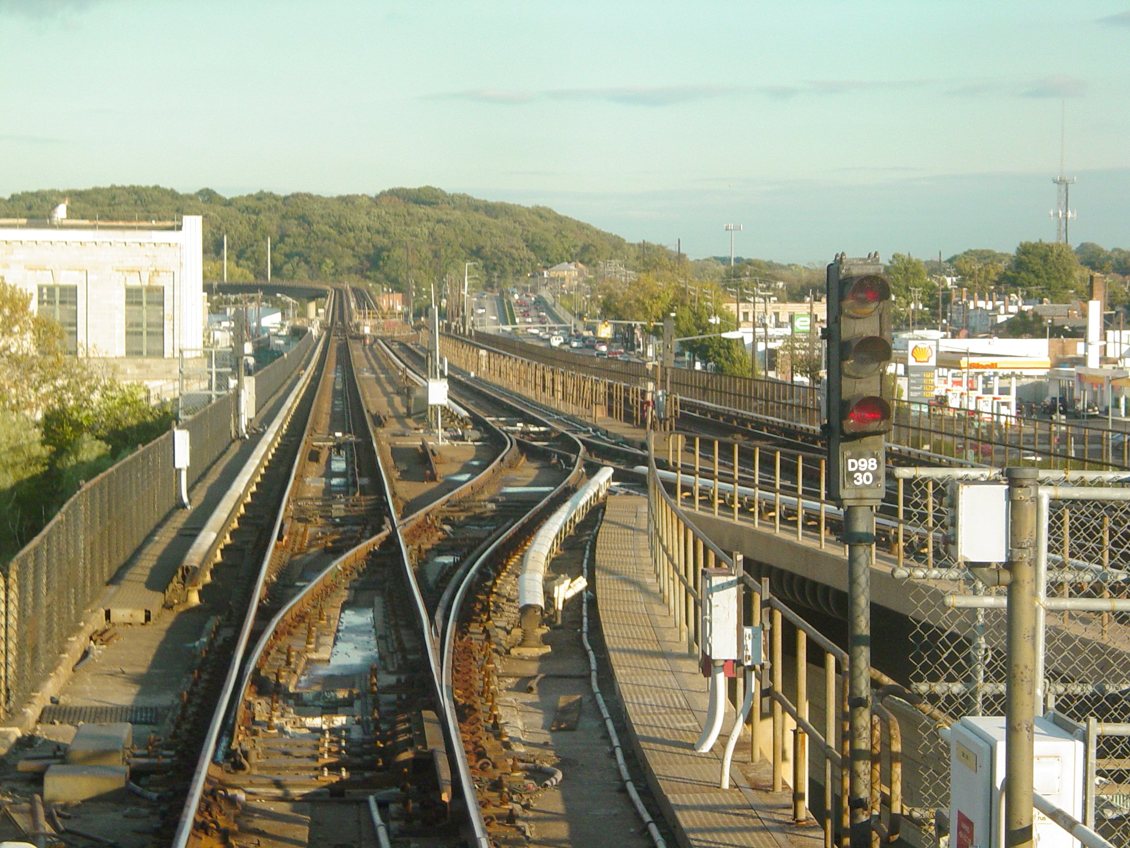 D Route pocket track on the Washington Metro system, showing the interlockings and the signal. This pocket track is located northeast of the Stadium-Armory station, and adjacent to the D&G junction, where the Blue and Orange Lines separate.